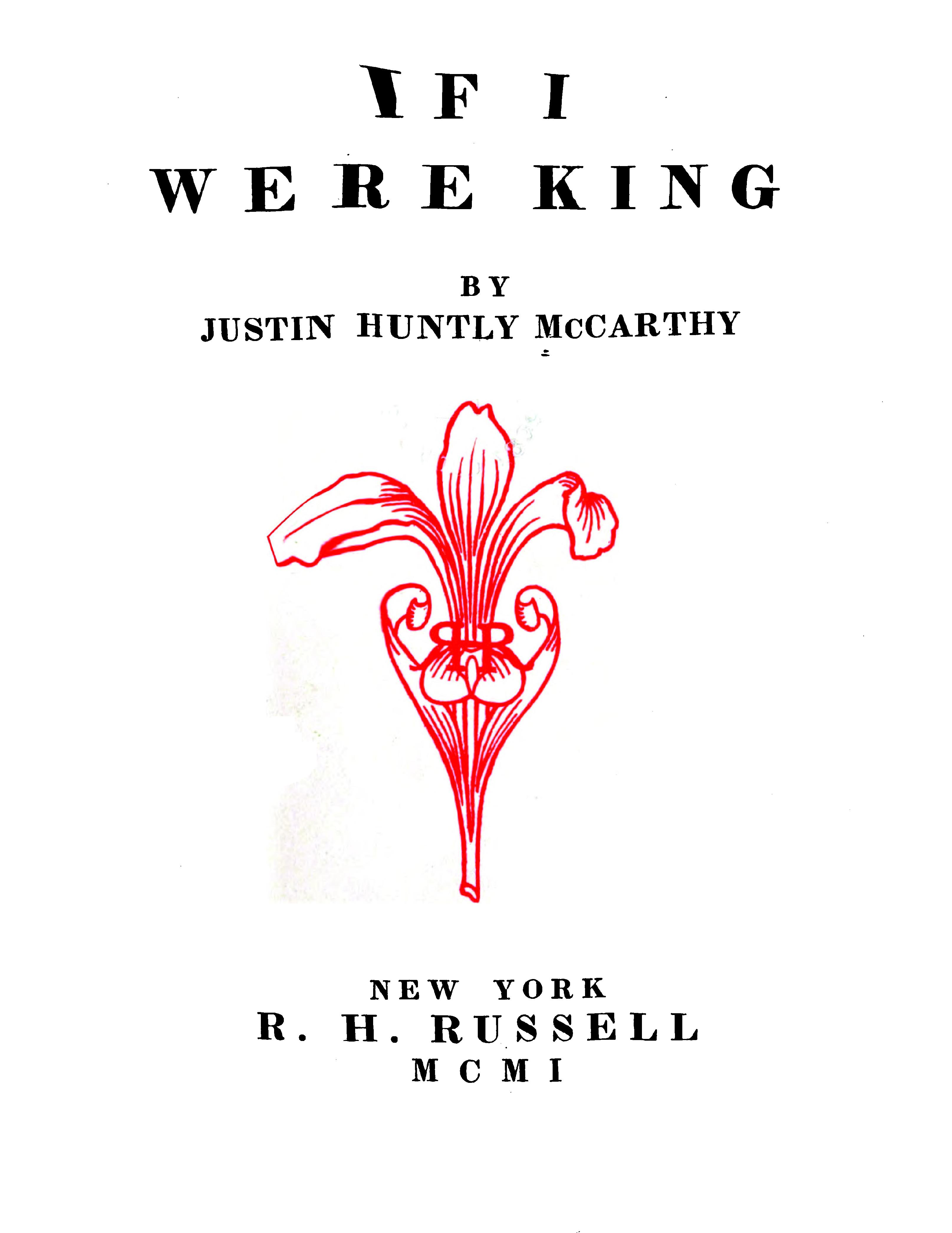 Title page of novel If I Were King (1901) by Justin Huntly McCarthy copyrighted to the publisher R. H. Russell